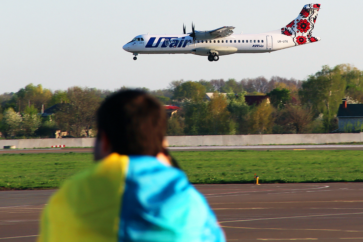 Planespotter photographing an UTair-Ukraine ATR 72-212A as it lands at Boryspil Airport